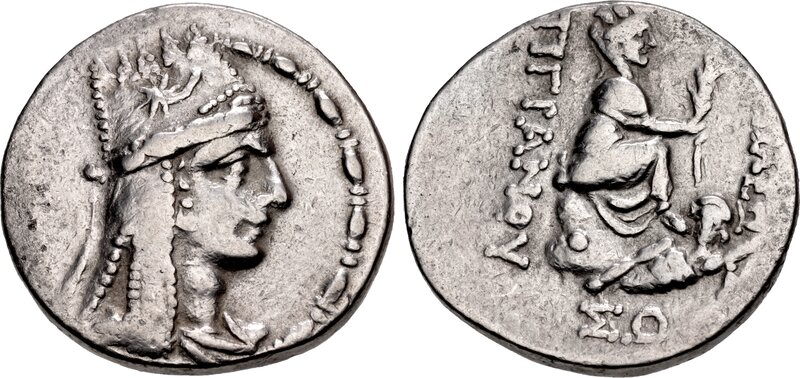 Coin of Tigranes the Younger, Tigranocerta mint.